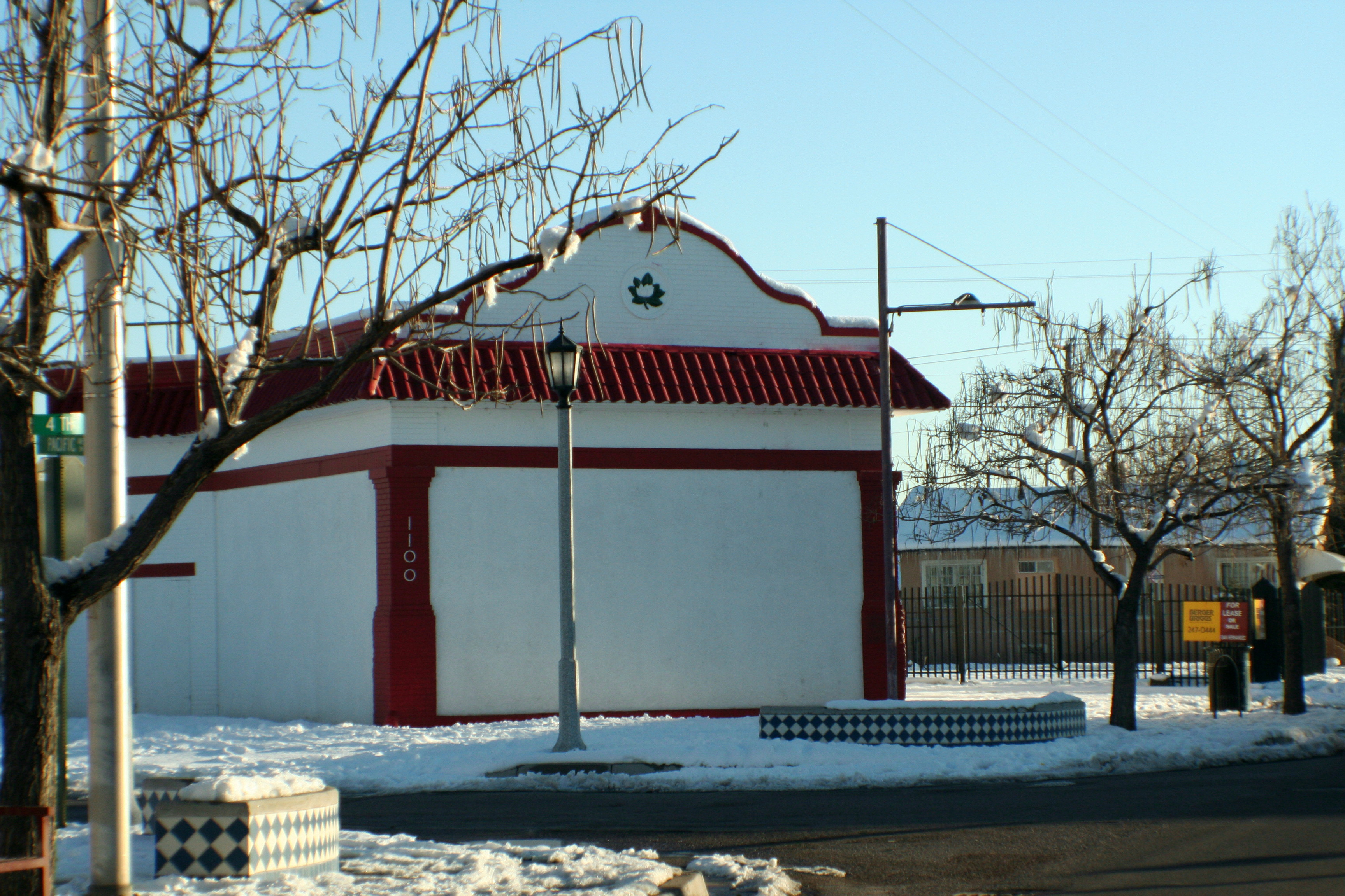 Old Magnolia Petroleum gasoline station on 4th Street along the original Route 66 in Barelas, Albuquerque, New Mexico